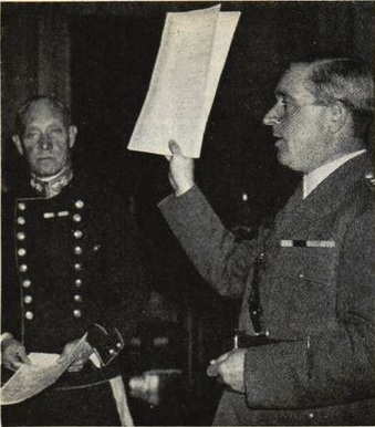 The management of the Army Field Service Exercise are oriented before the start: Army Chief of Staff Colonel, later General Helge Jung speaks, beside him Chief of Army General Per Sylvan.